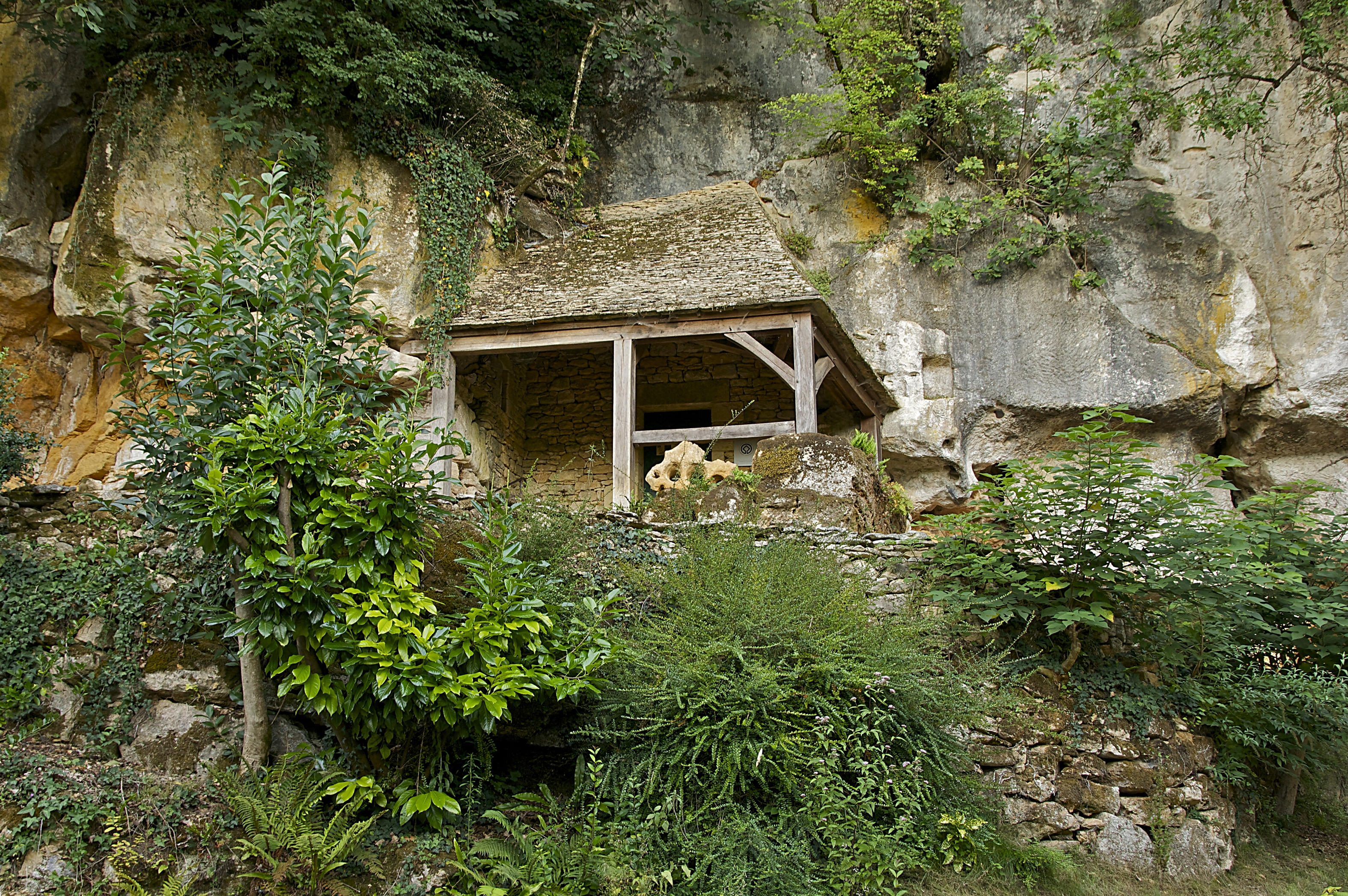 The entrance of the Sorcerer's cave (Grotte du Roc de Saint-Cirq), in Dordogne, France. One can see inside magdalenian engravings (ca.15.000 BP), and among them very rare representations of humans.